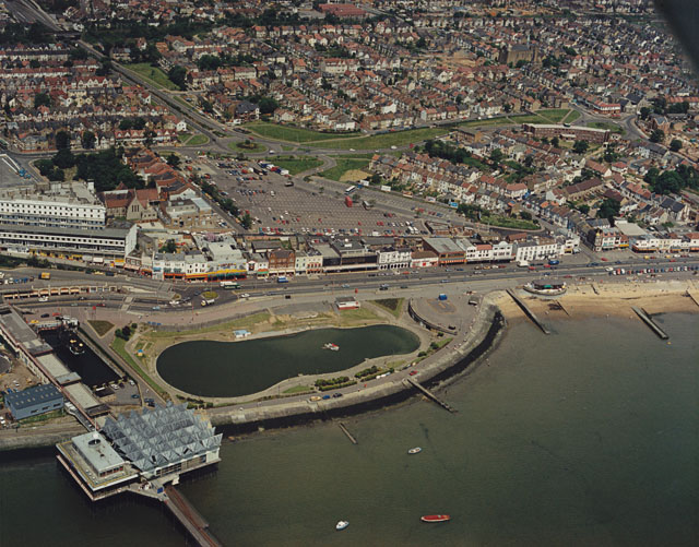 Aerial view of Southend seafront: base of Southend pier The road across the middle here is Marine Parade. The large pool in front of it is a boating lake. The smaller, rectangular pool to the left, next to the pier, holds a replica of the 'Hispaniola' from Treasure Island. The pier buildings at the bottom left include the bowling alley. The beginnings of the pier itself are just visible. The previous (eastern) photo in this sequence is 1723513. The next (western) photo is .